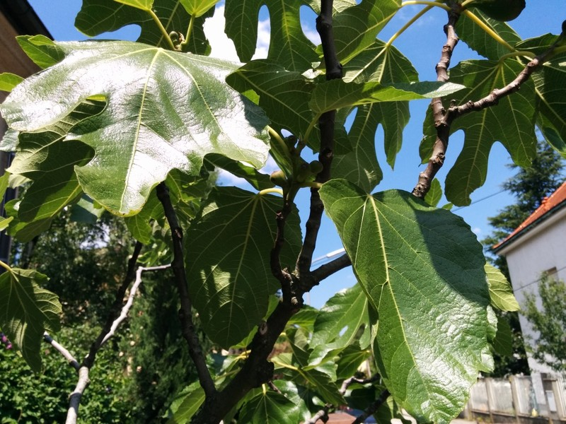 Fig leaves of different shapes of the Ficus carica variety Negronne in Vienna.